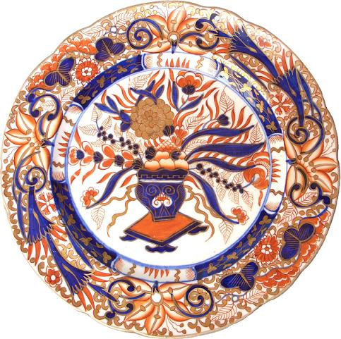 Photo of an english Imari (Crown Derby, XIXth century) Photo taken by Georges Le Gars.in book : "Les Imari anglais" (english imari ware) . Publisher Massin , Paris 2007